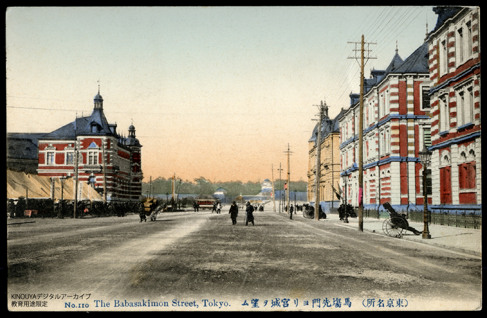 Postcard of Babasakidori with a view of the Imperial Palace in Tokyo